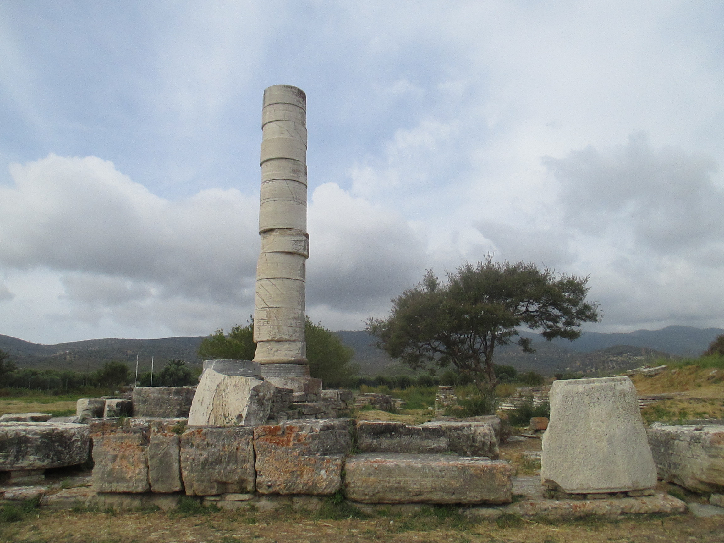 Heraion of Samos.